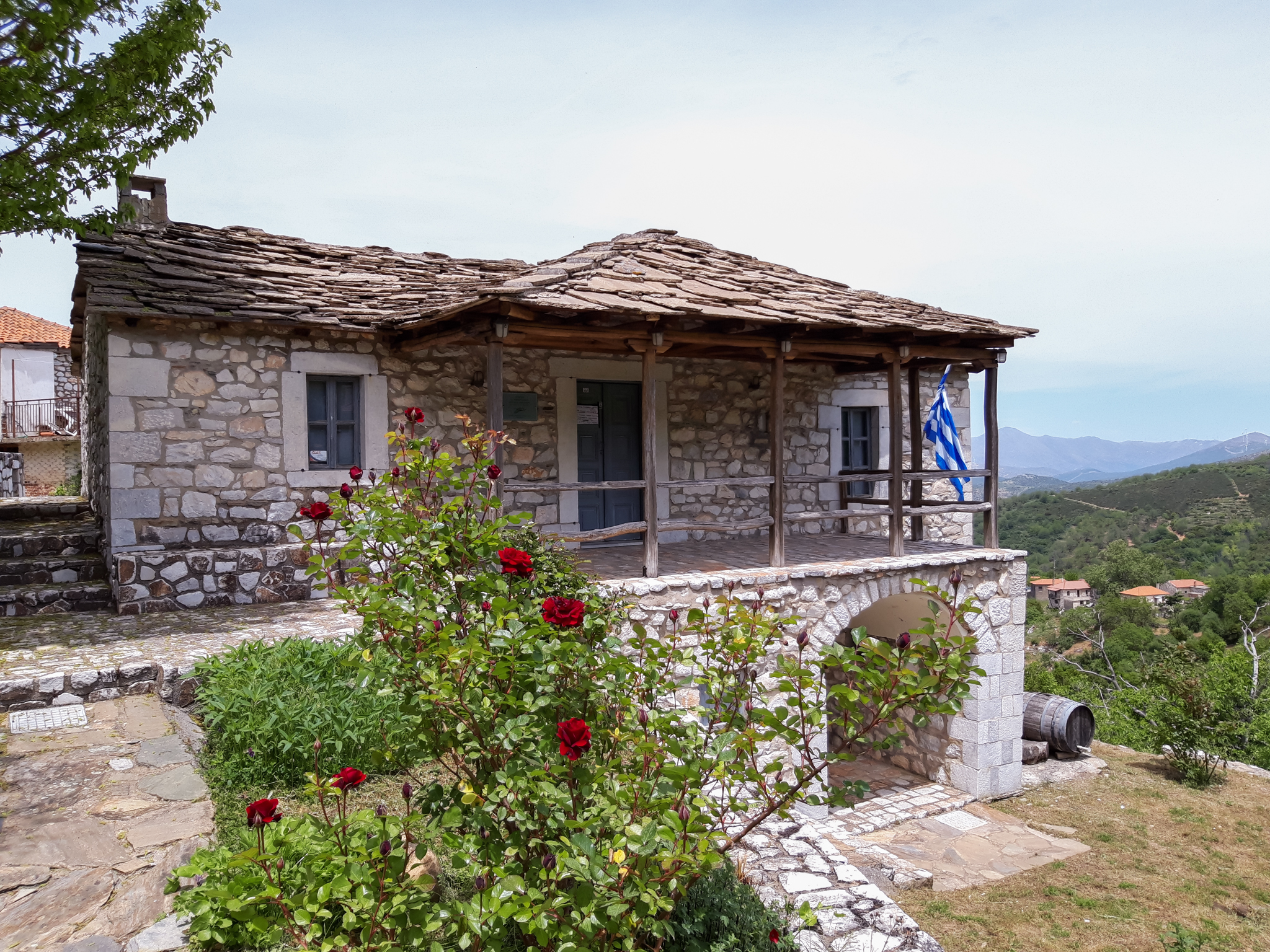 The building that houses the "History and Folklore Museum of Doliana".